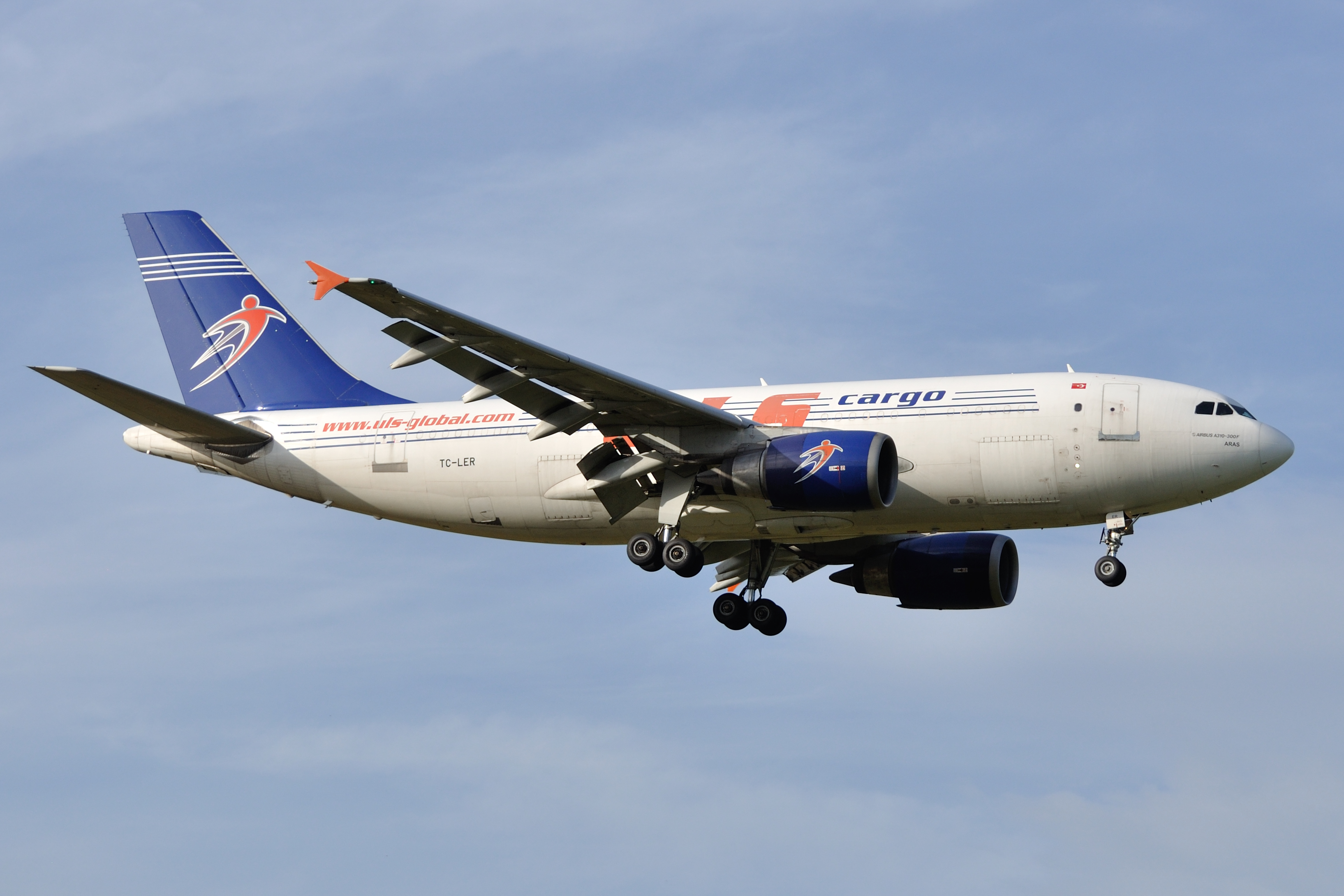 Switzerland, Canton of Zürich, spotting along runway 14 at Zurich International Airport